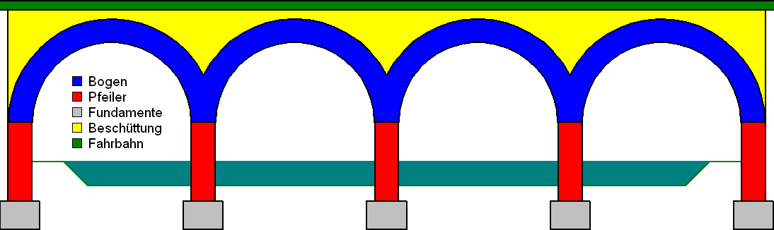 a pattern of an elbow bridge, description in german